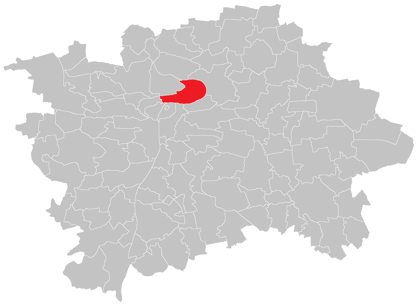 Location map of Prague cadastral area Holešovice